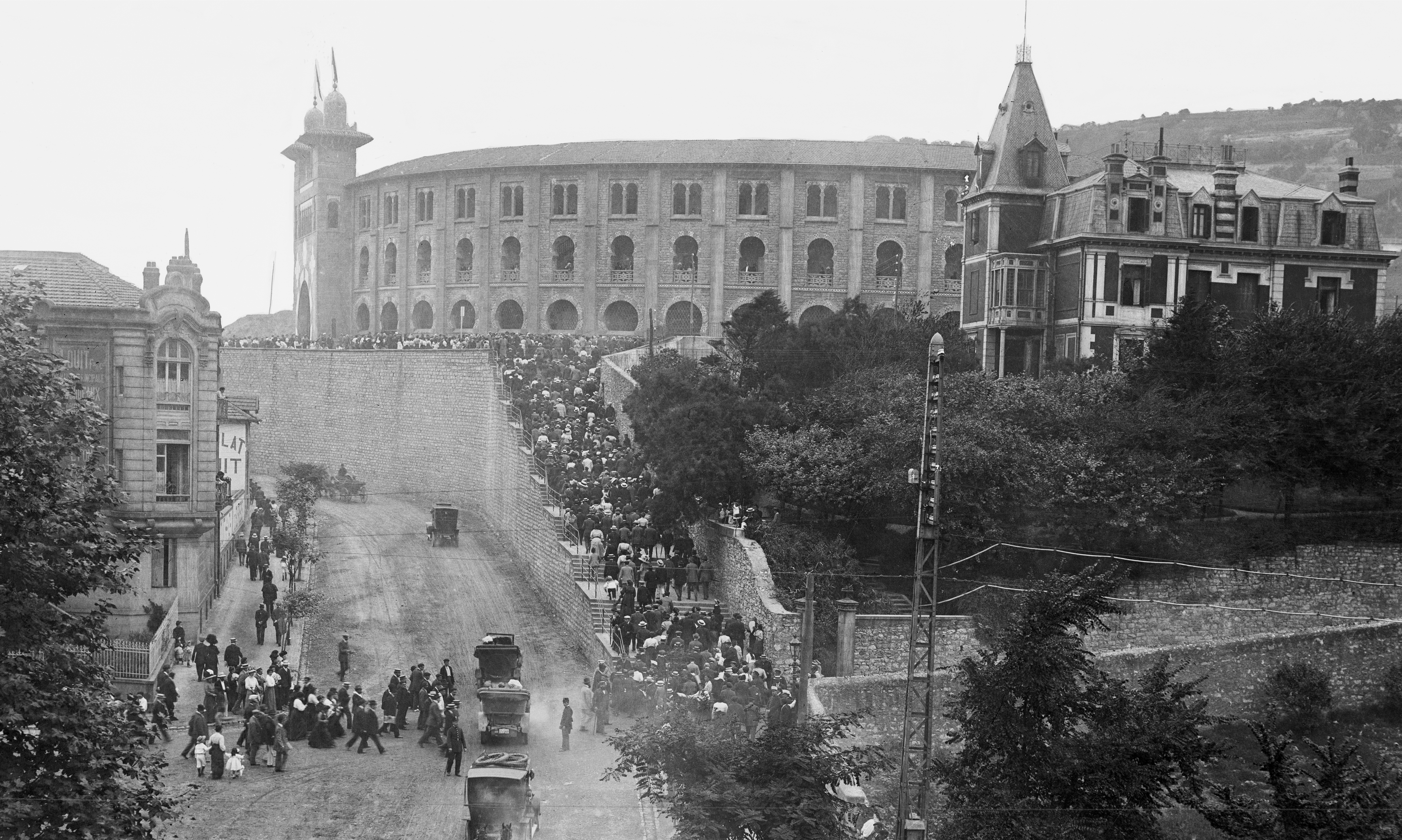 Txofre bullring in Donostia.